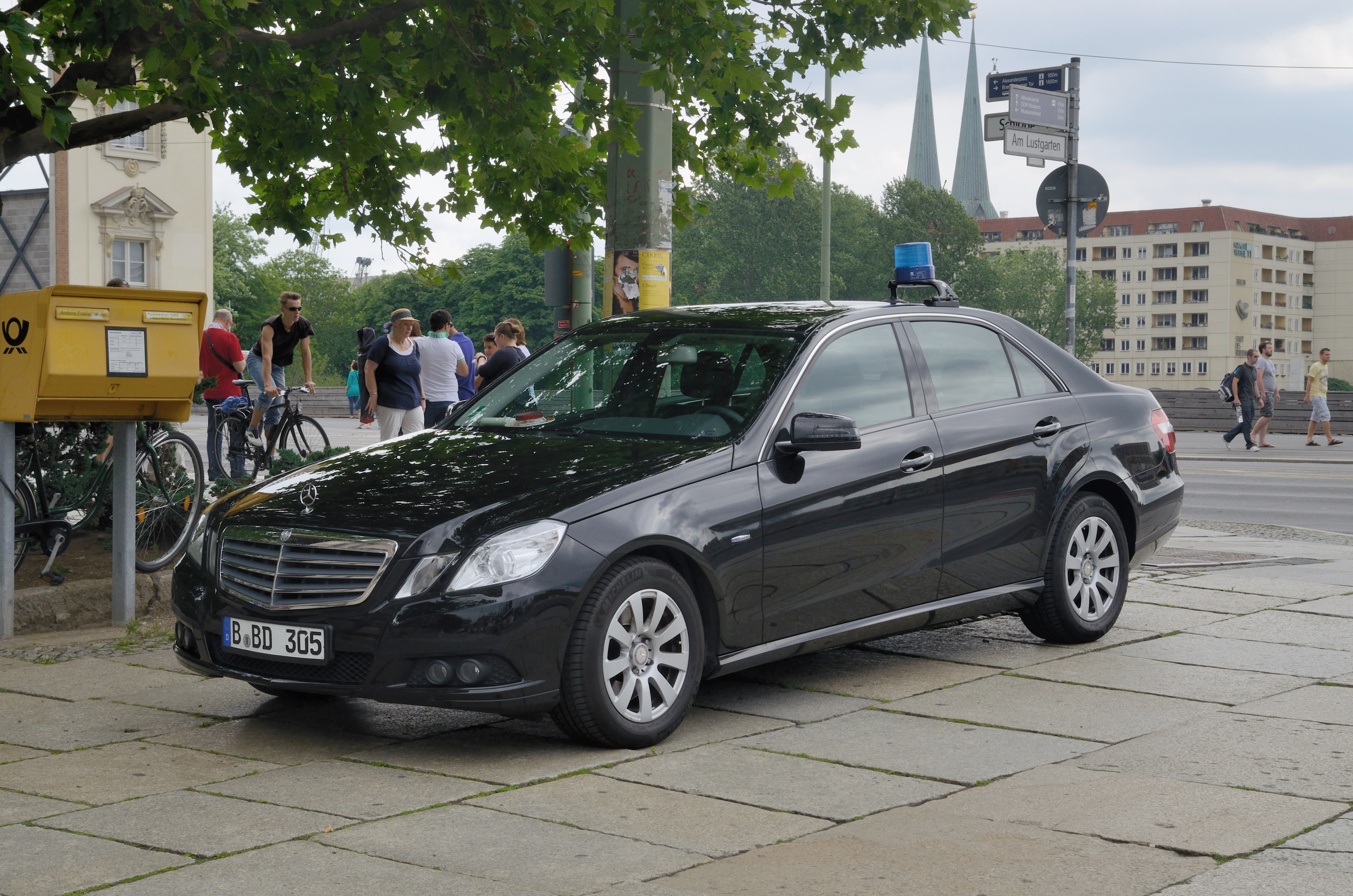 Berlin: civil police car